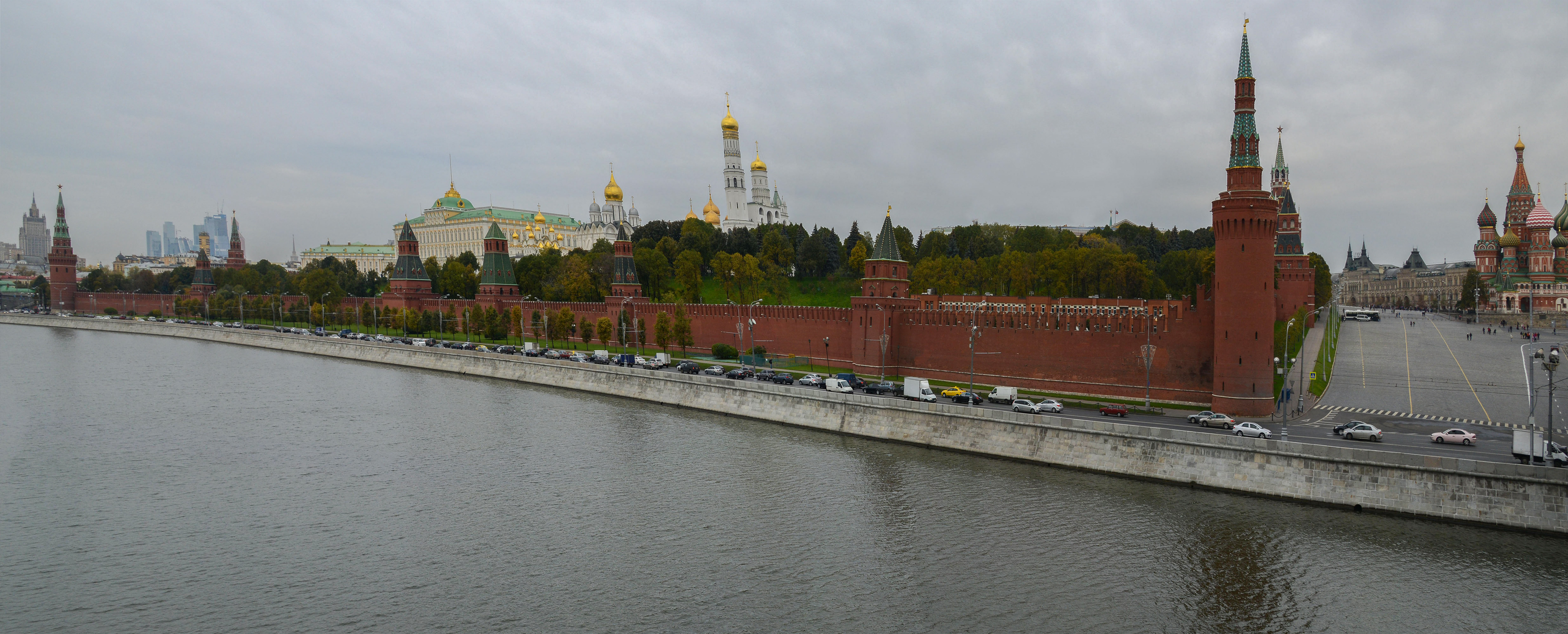 Photostitched panorama of The Moscow Kremlin